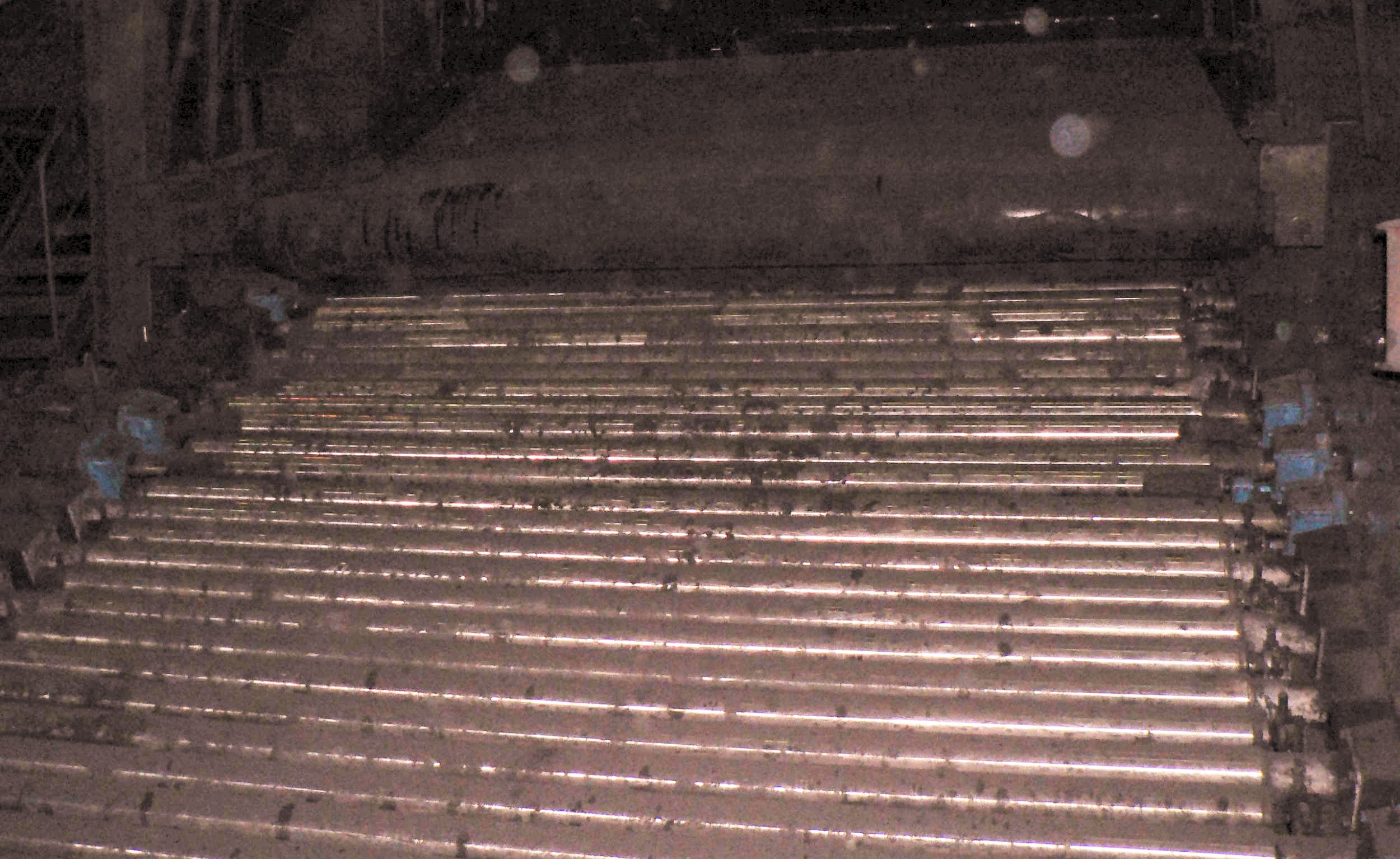 Roll feeder for green pellets